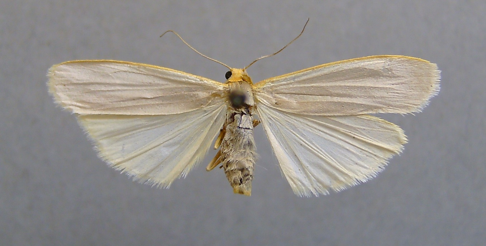 Eilema caniola, Darnius Spain